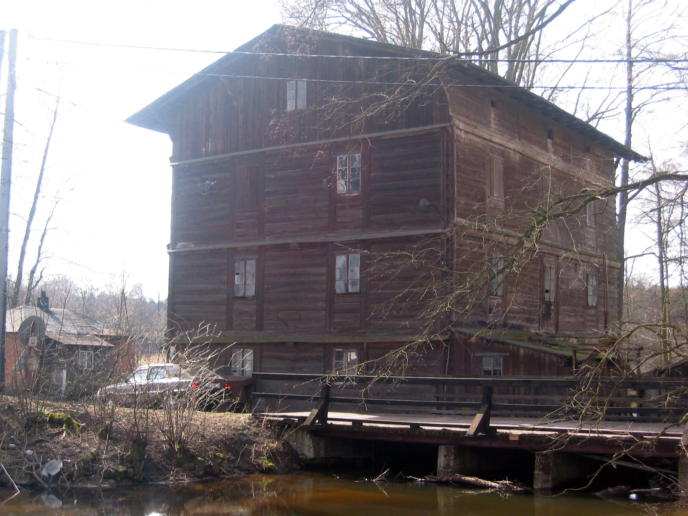 Old Watermill in Talar, Poland.